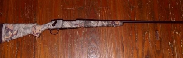 A Remington 700 SPS Buckmasters Edition chambered in 300 Win Mag.